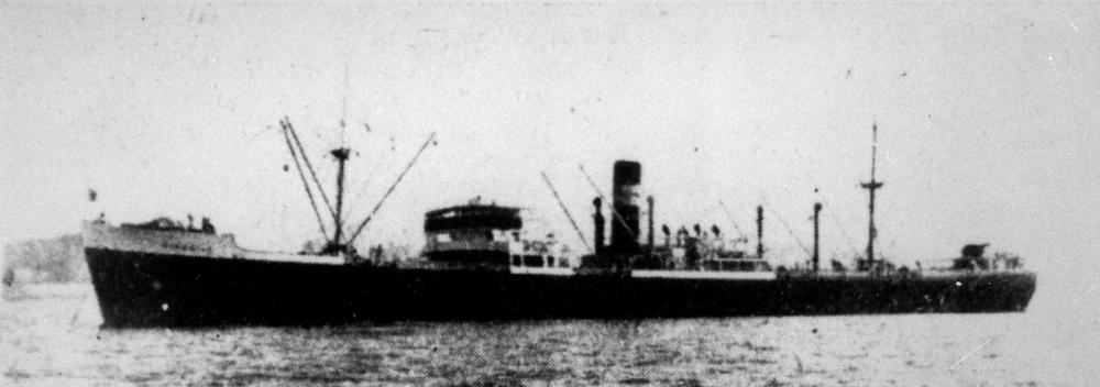 Hopestar (ship) The 'Hopestar', built in 1936, was a part-welded, turbine-driven vessel weighing 5, 267 tons. It was tragically lost with its crew of 37 in the North Atlantic during November 1948 while on a ballast passage from Tyne to Philadelphia. (Description supplied with photograph).